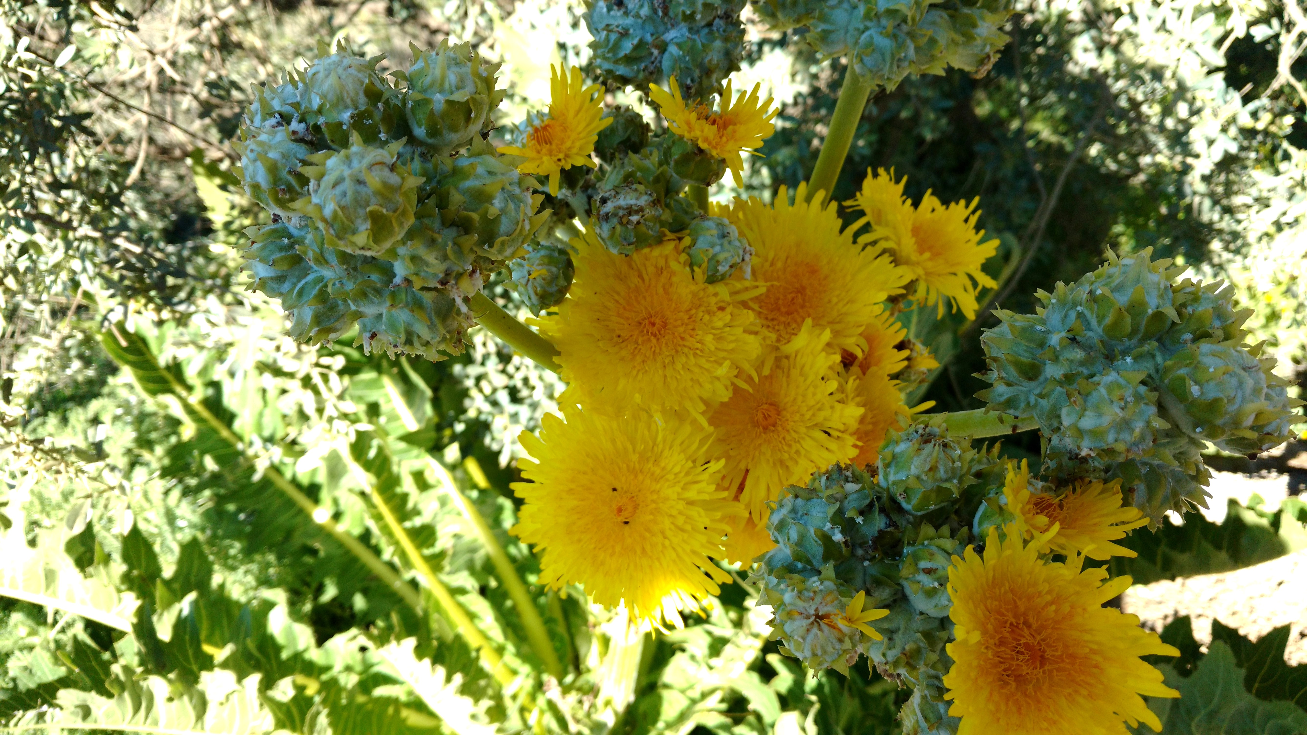 Sonchus acaulis in Presa de Las Niñas